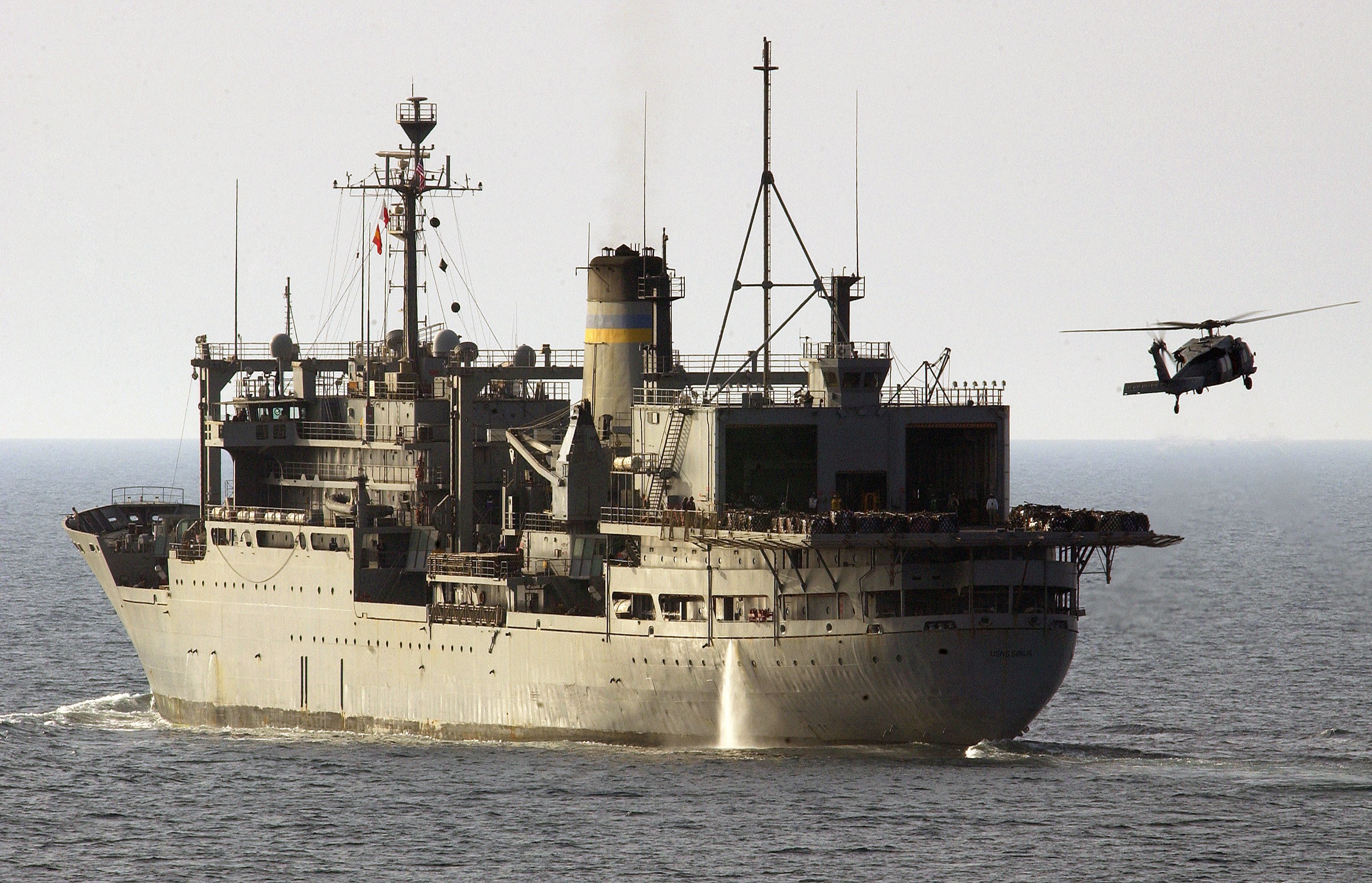 Arabian Gulf (Mar. 26, 2004) - MH-60S Knighthawks assigned to the "Chargers" of Helicopter Combat Support Squadron Six (HC-6), Detachment 4, conduct a vertical replenishment at sea with USS George Washington (CVN 73). HC-6 is assigned to the Military Sealift Command (MSC) combat stores ship USNS Sirius (T-AFS 8). The Norfolk, Va. based nuclear aircraft carrier Washington is on a regularly scheduled deployment in support of Operation Iraqi Freedom (OIF). U.S. Navy photo by Photographer’s Mate 1st Class Brien Aho. (RELEASED)